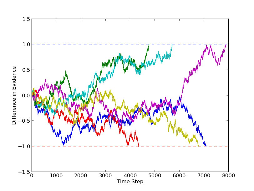 Example graph of accumulation of evidence in a Drift Diffusion Model, with a source at 100% noise. 2AFC